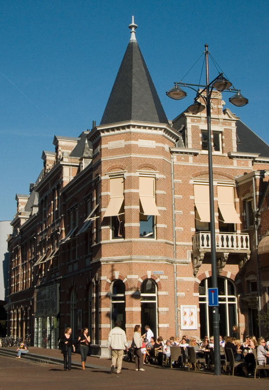 Philharmonie Haarlem, The Netherlands